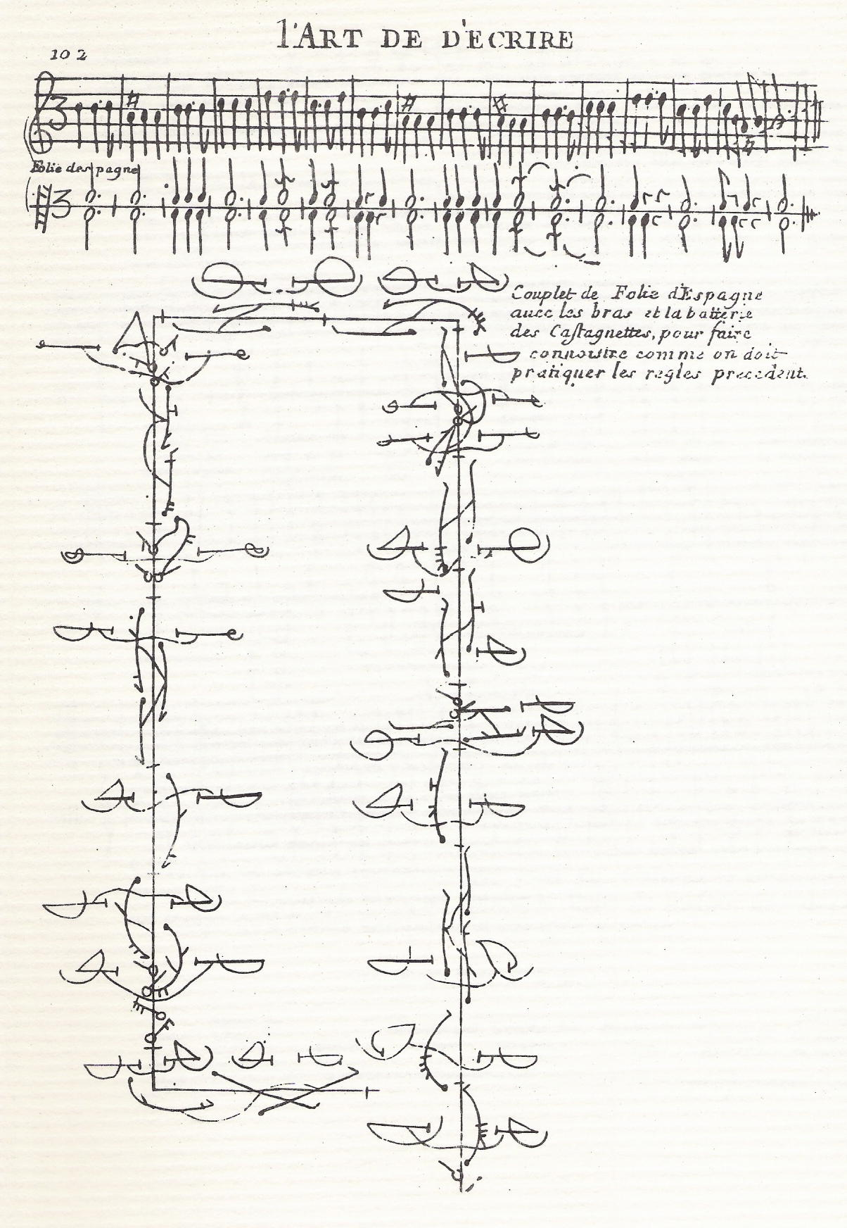 Chorégraphie (1700, link is to 1713 edition).